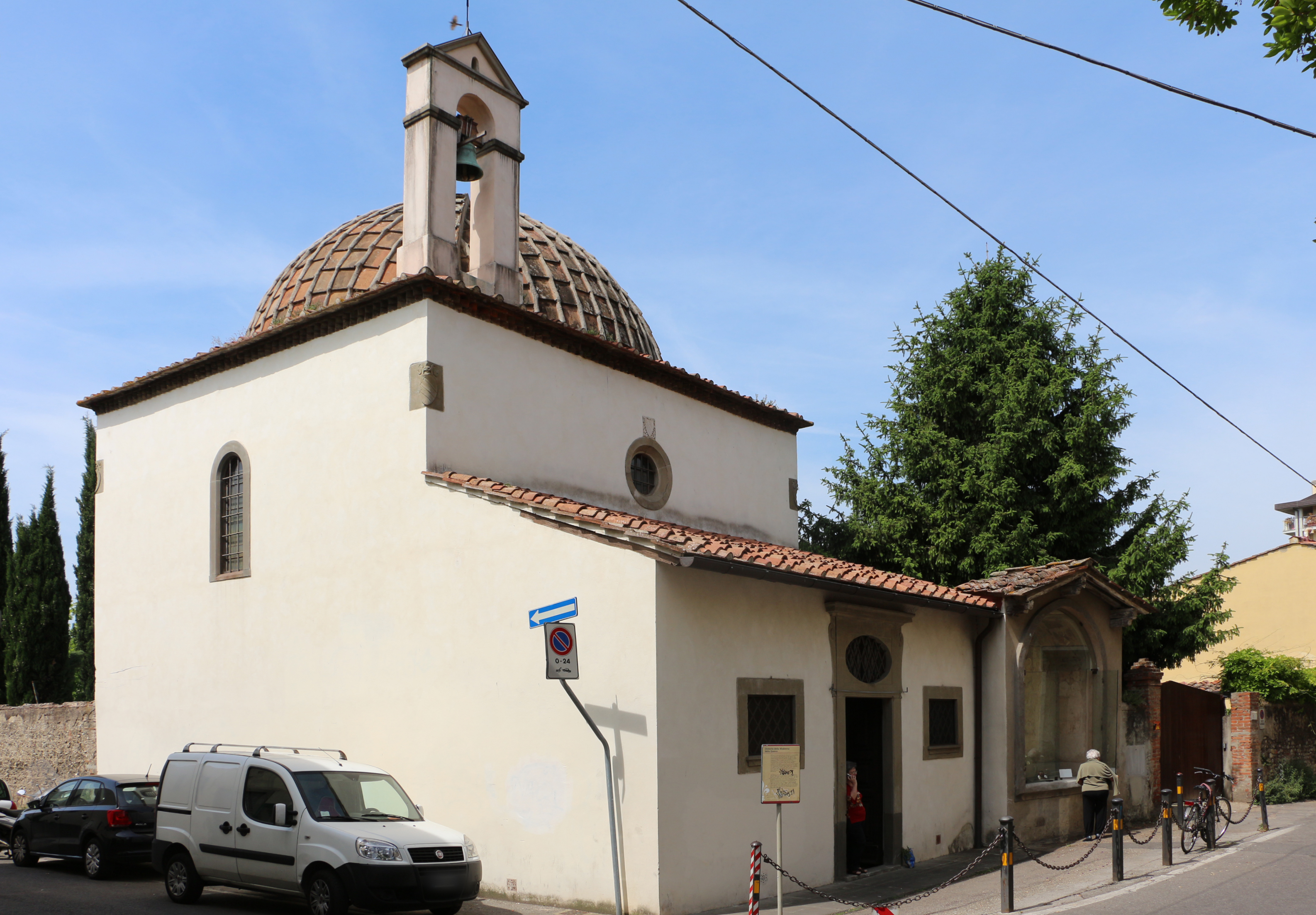 Madonna delle Querce (Florence)